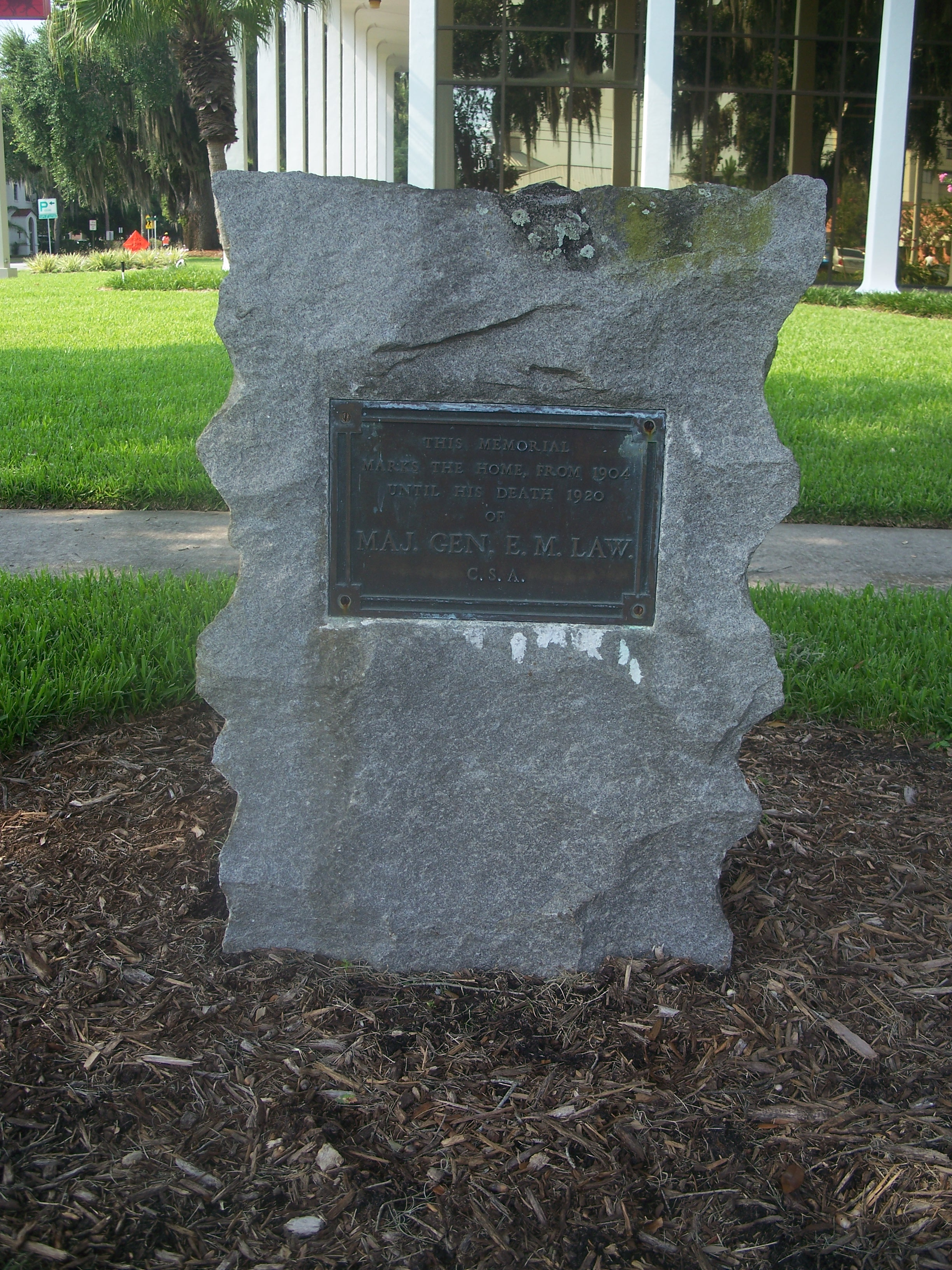 Bartow, Florida: Evander M. Law monument.